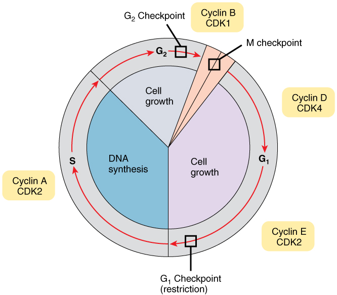 Version 8.25 from the Textbook OpenStax Anatomy and Physiology Published May 18, 2016